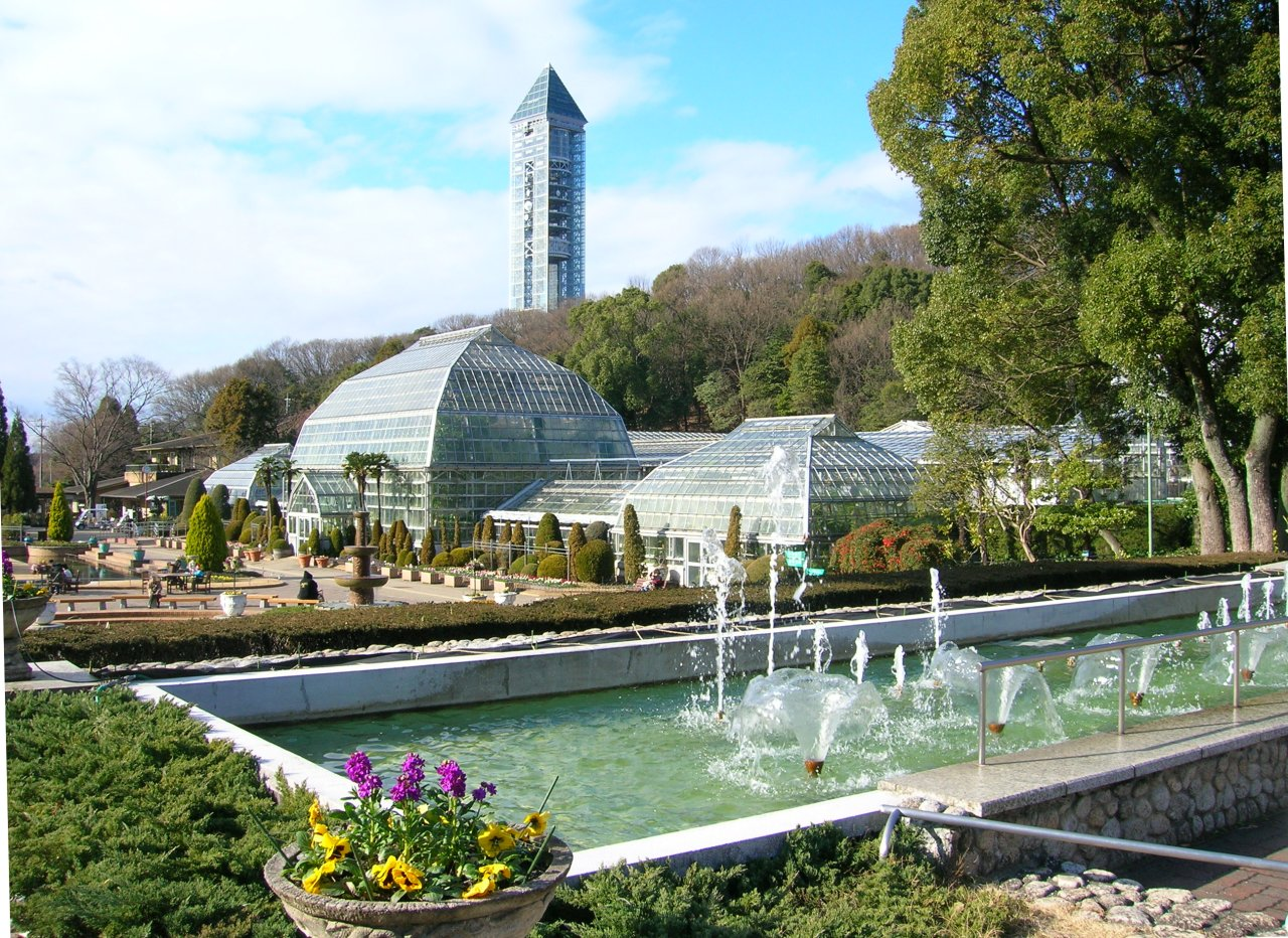 Higashiyama Shokubutuen (Greenhouse in Higashiyama botanical gardens, build 1932.) Loc: Chikusa-ku, Nagoya city, Aichi Prefecture, Japan 東山植物園 温室 撮影場所 愛知県名古屋市千種区